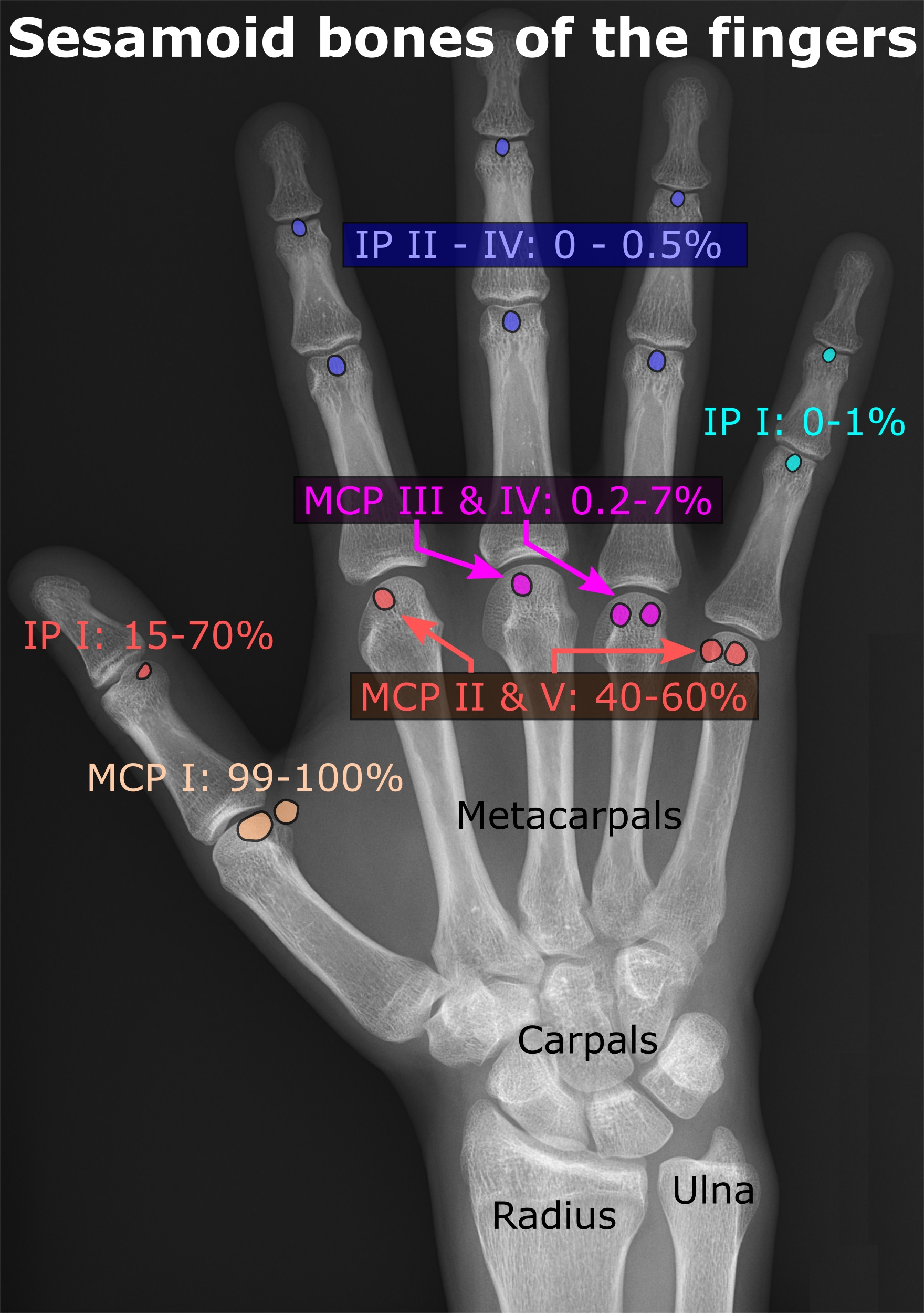 X-ray of the right hand, areas representing where sesamoid bones would be, colored by their prevalences, and with representative shapes.